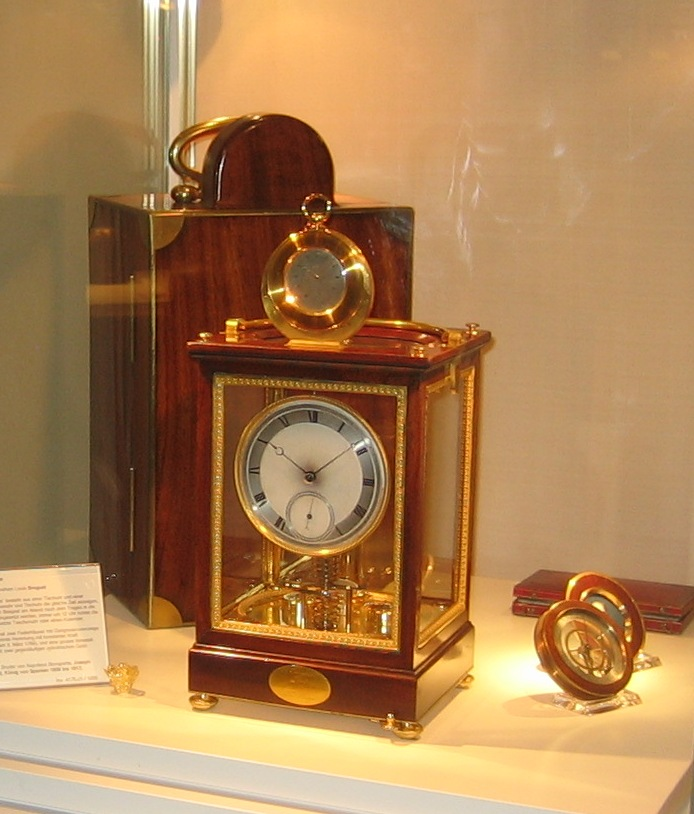 Photo by Fortunat Mueller-Maerki, April 2008, Visit of Antiquarian Horological Society USA Section at Uhrenmuseum Beyer. Here Pendule Sympathique by AL Breguet, ca 1795, selfsynchroniszing the pocketwatch based on the clocktime at 12 o'clock.